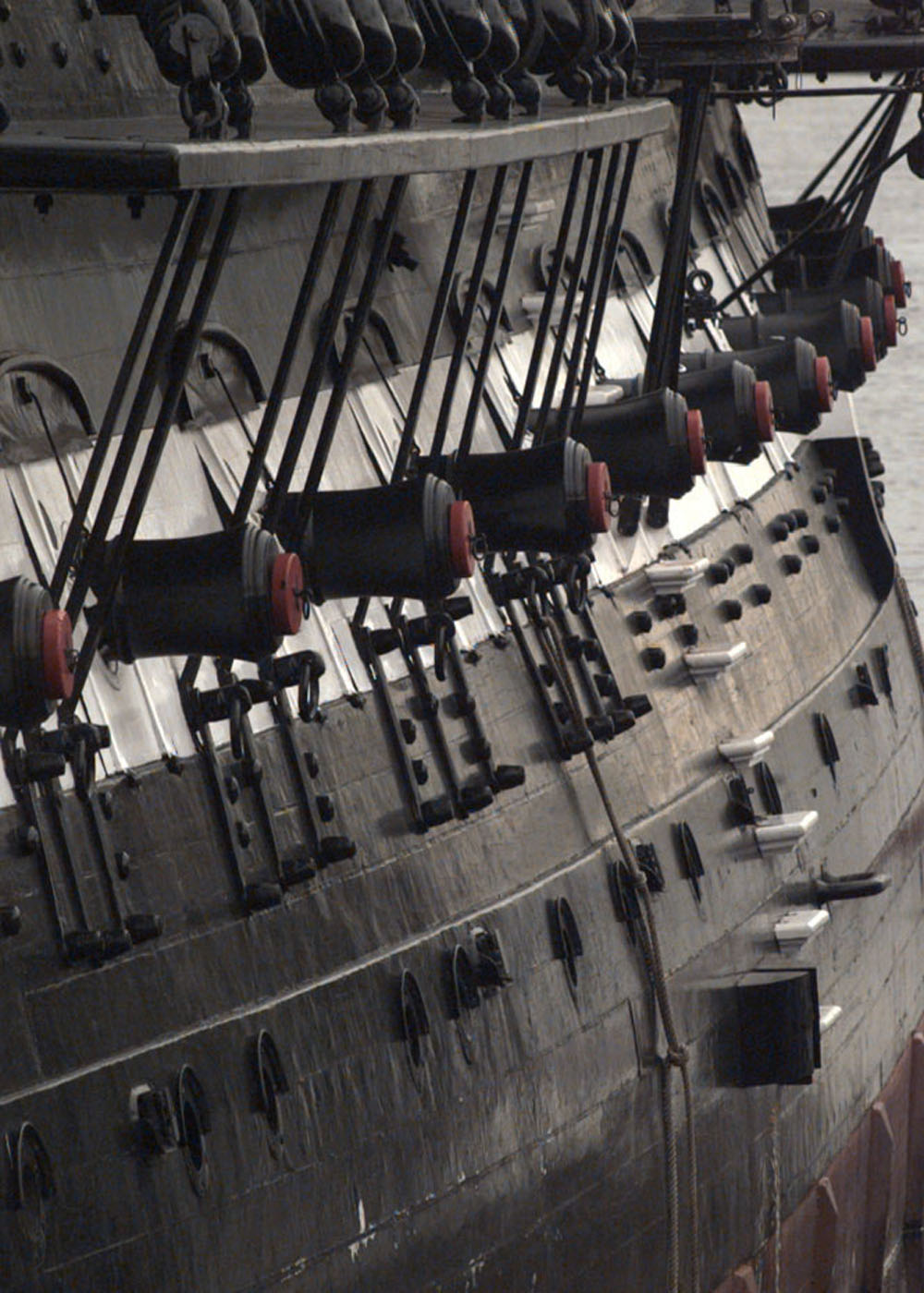 Boston, MA (Oct. 8, 1996) -- The U.S. Navy’s sailing ship USS Constitution, the world’s oldest commissioned warship, will celebrate her 199th Anniversary on October 21st, 1996, at her home port at Boston Harbor, where the ship was first built nearly 200 years ago. With a 12 million dollar, 5 year overhaul almost complete, Constitution and her crew plan to set sail in 1997 to celebrate her 200th anniversary. The USS Constitution's cannons were among the most powerful to set sail on any warship in her day. U.S. Navy Photo by Photographer’s Mate 1st Class Alexander C. Hicks Jr. (RELEASED)